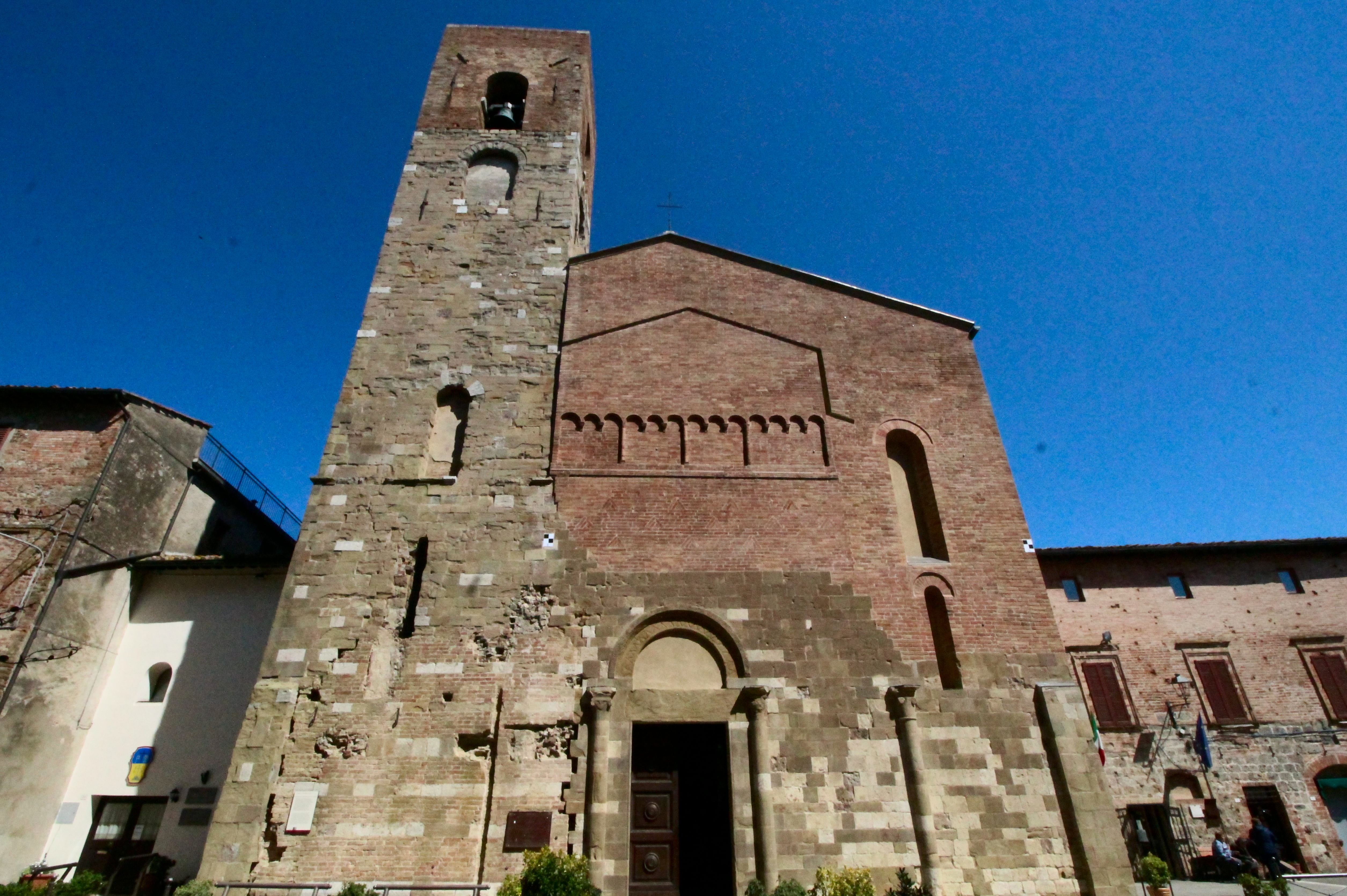 Church (Collegiata) Santa Maria Assunta, Church in Casole d'Elsa, Province of Siena, Tuscany, Italy